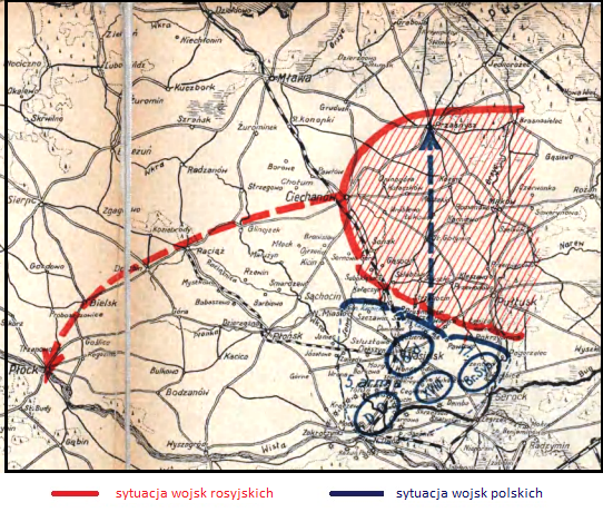 Władysław Sikorski, On the Vistula and Wkra. A Study from the Polish-Russian War of 1920. Sketch No. 1 (fragment): The projected axis of attack of the Russian troops and the grouping of the 5th army according to the order of August 11, 1920